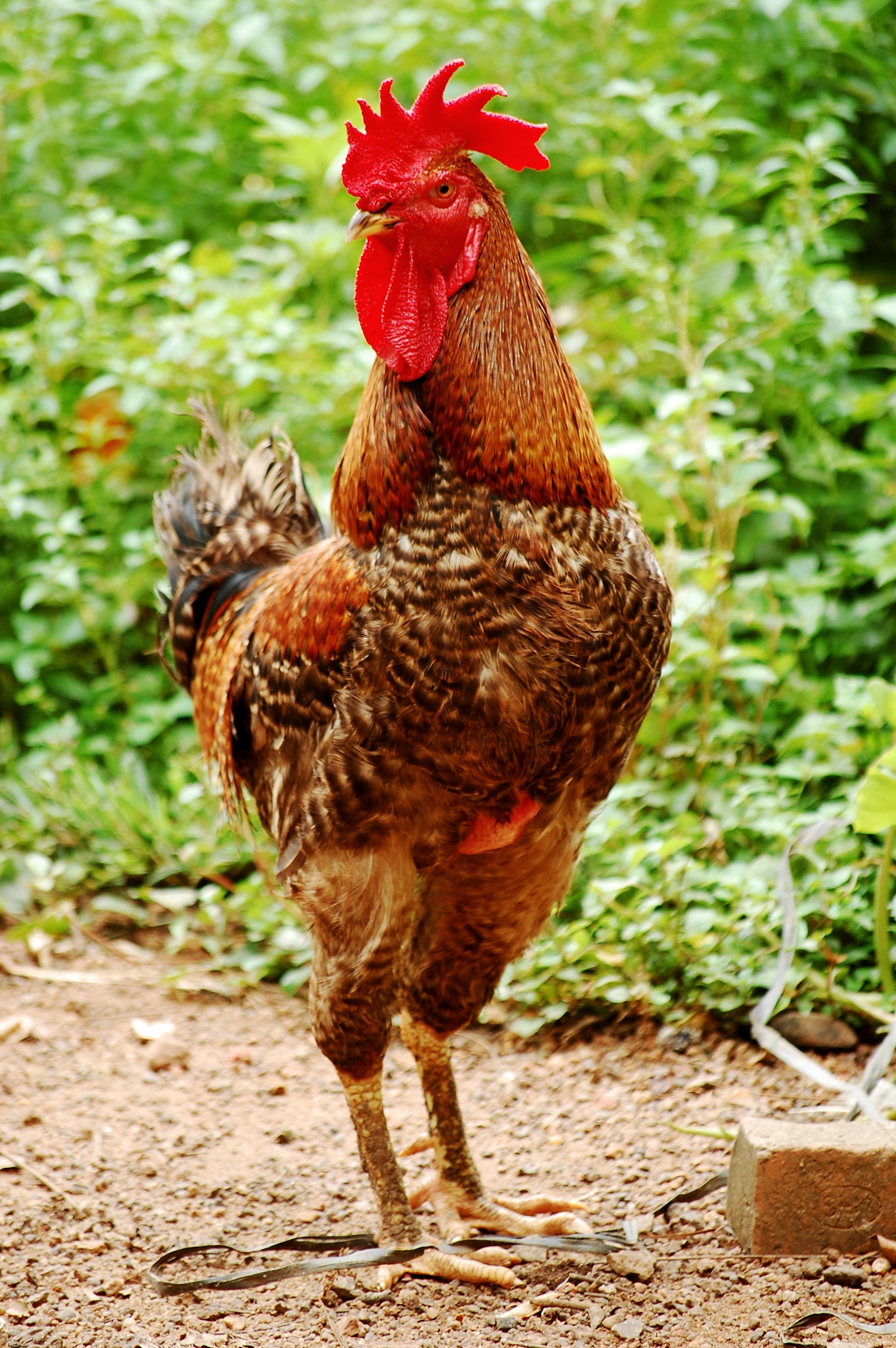 Rooster full